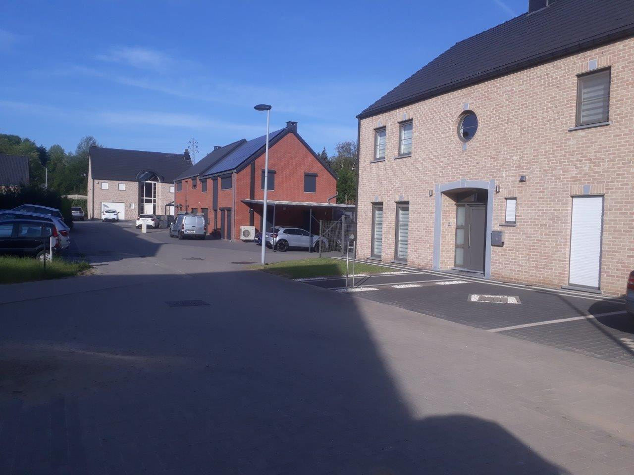 la Rue Suzanne Gregoire a Vottem